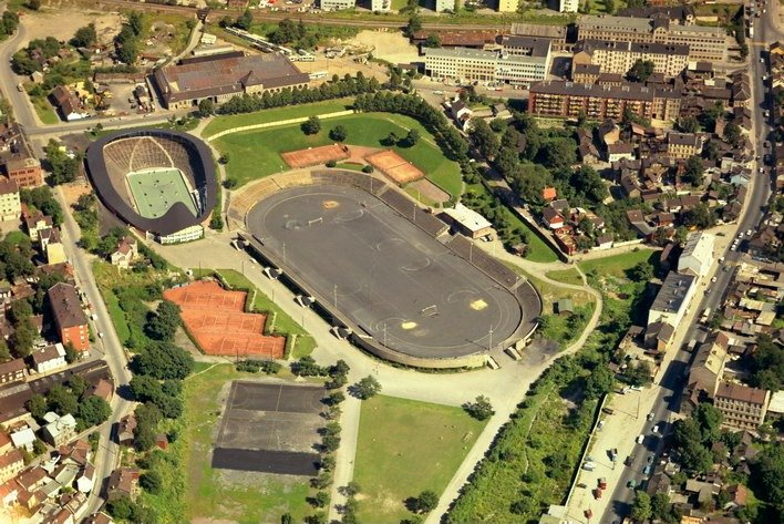 Jordal Idrettspark, including Jordal stadion and Jordal Amfi, in Oslo, Norway